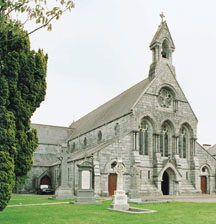 The Church of St. Mary and St. John (1814), in Ballincollig, Co. Cork, Éire